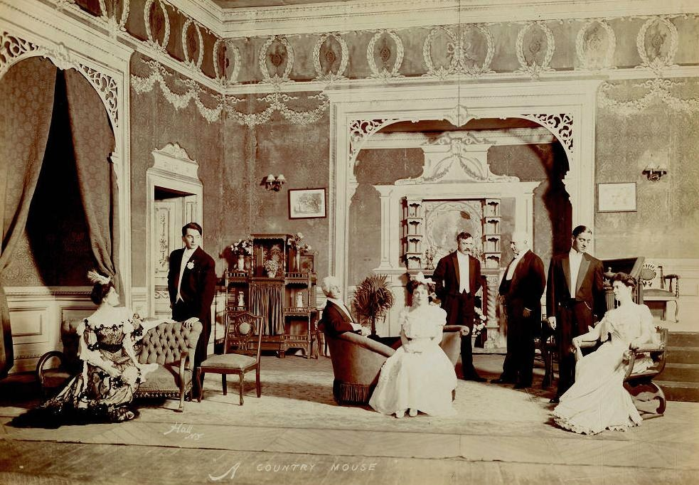 A scene from the Arthur Carr's play A Country Mouse, Grand Opera House, Seatlle, with Paul McAllister (second to left) & Edna Wallace Hopper (center) - publicity still (cropped)